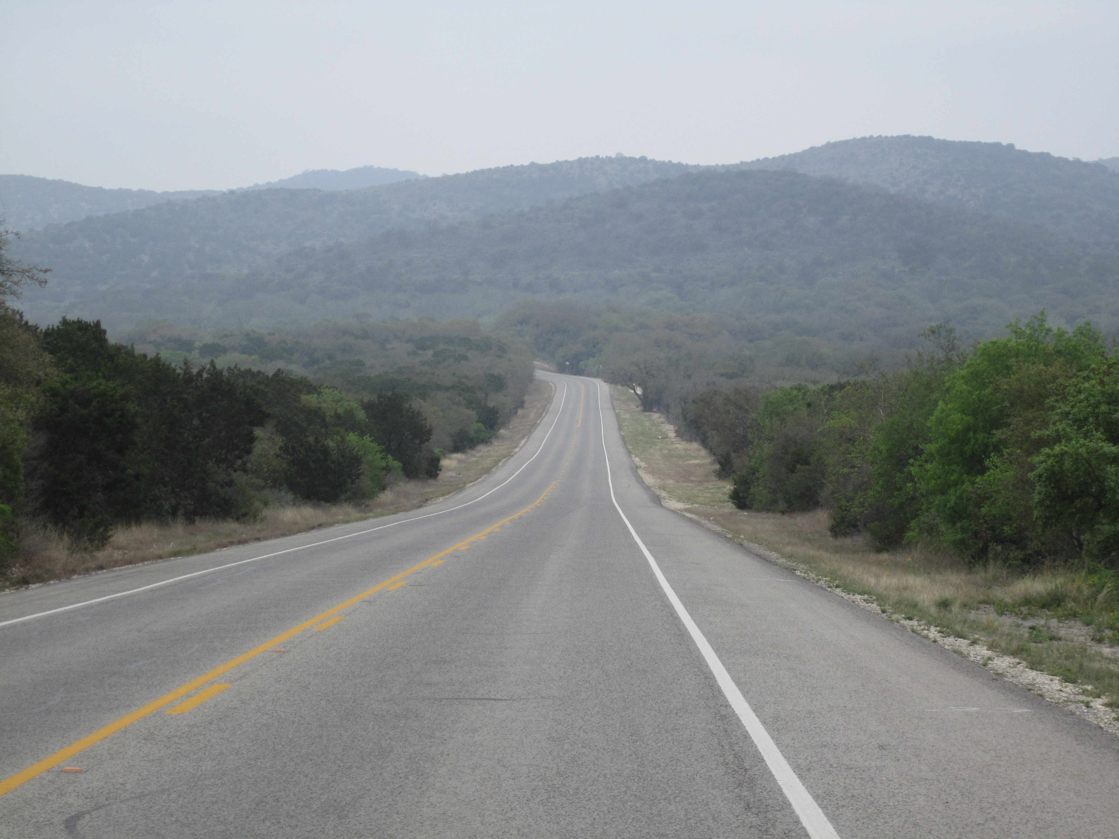 I took photo with Canon camera in Uvalde County, TX.